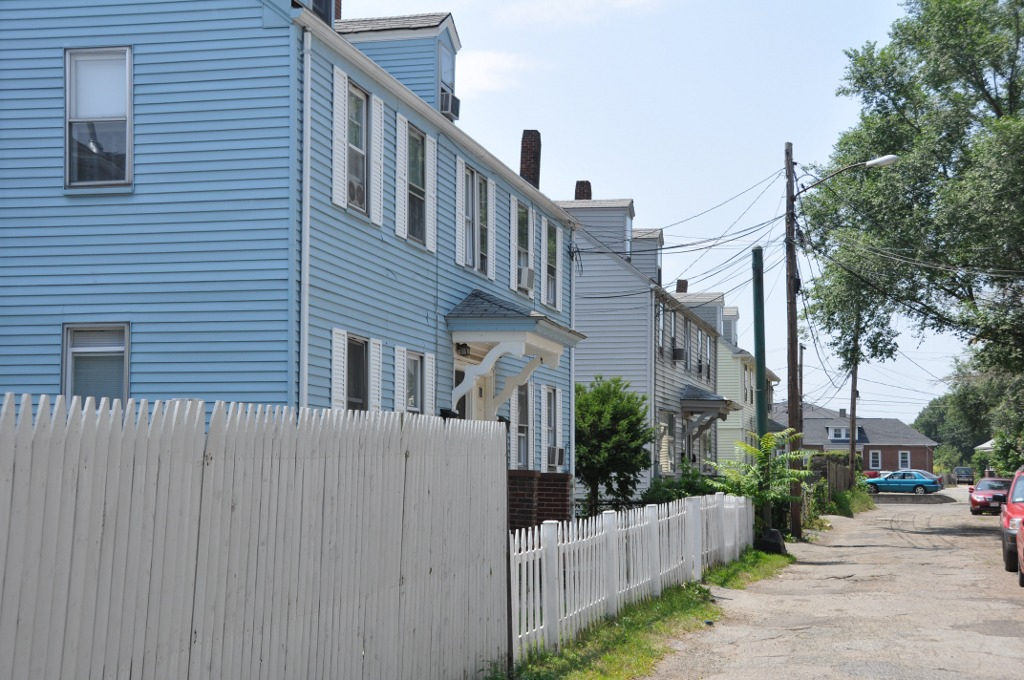 A photograph of the historic Lawton Place Historic District in Waltham, Massachusetts.